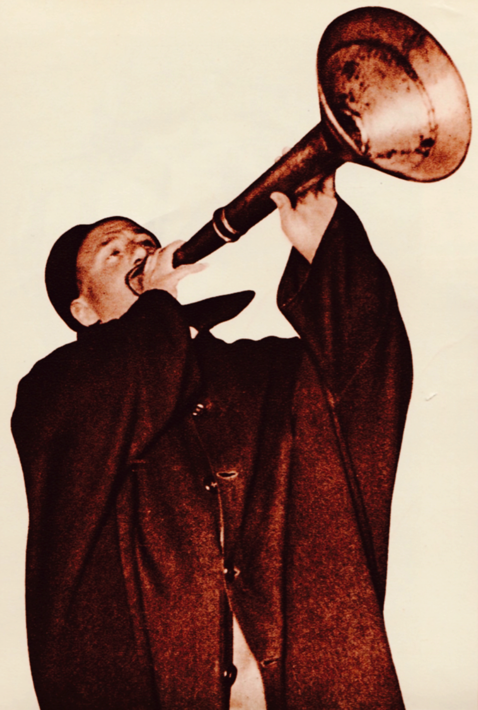 German taleteller, writer and progressive pedagogue Martin Luserke (1880–1968) as teacher and principal of Schule am Meer on the German island Juist using a loud hailer/megaphone in the mornings to wake up the scholars with a seamanly 'rise, rise...'